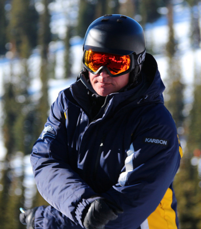 Portrait of Australian Snowboarder Trent Milton, 2014 Australian Paralympic Team Athlete